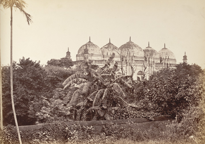 Photograph of a mosque at Dacca (Dhaka) taken in the 1880s, from an album 'Architectural Views of Dacca', containing 13 prints by Johnston and Hoffman.